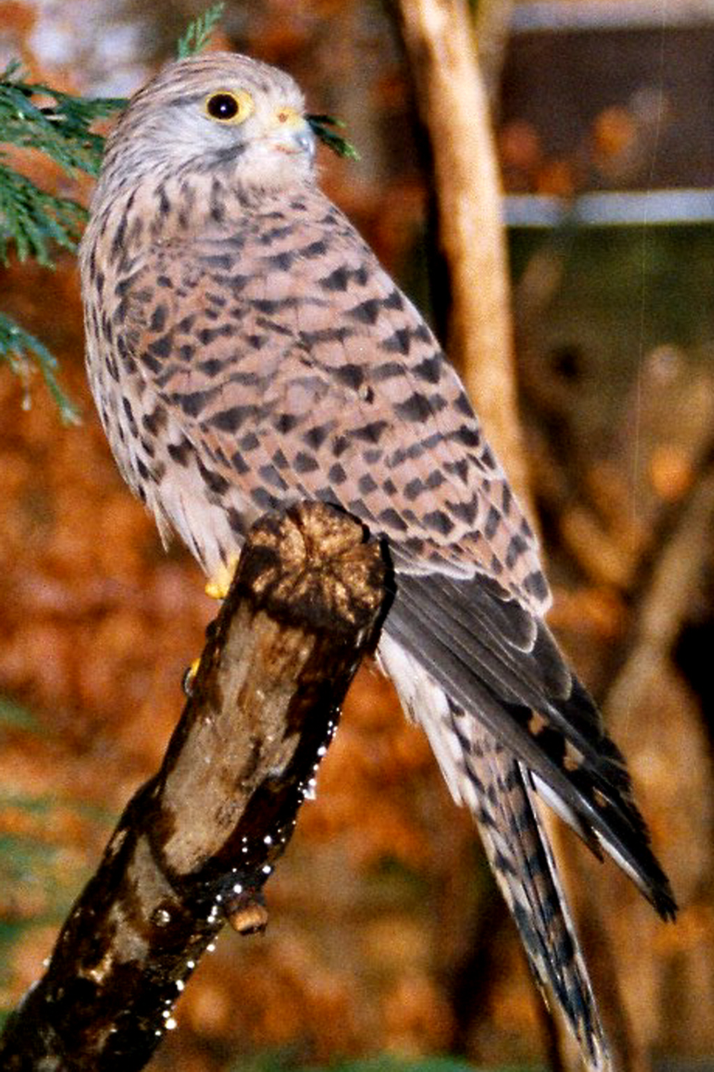 Falco tinnunculus (Turmfalke in German) Foto taken by User BS Thurner Hof 30.12.04 at the Cologne Zoo